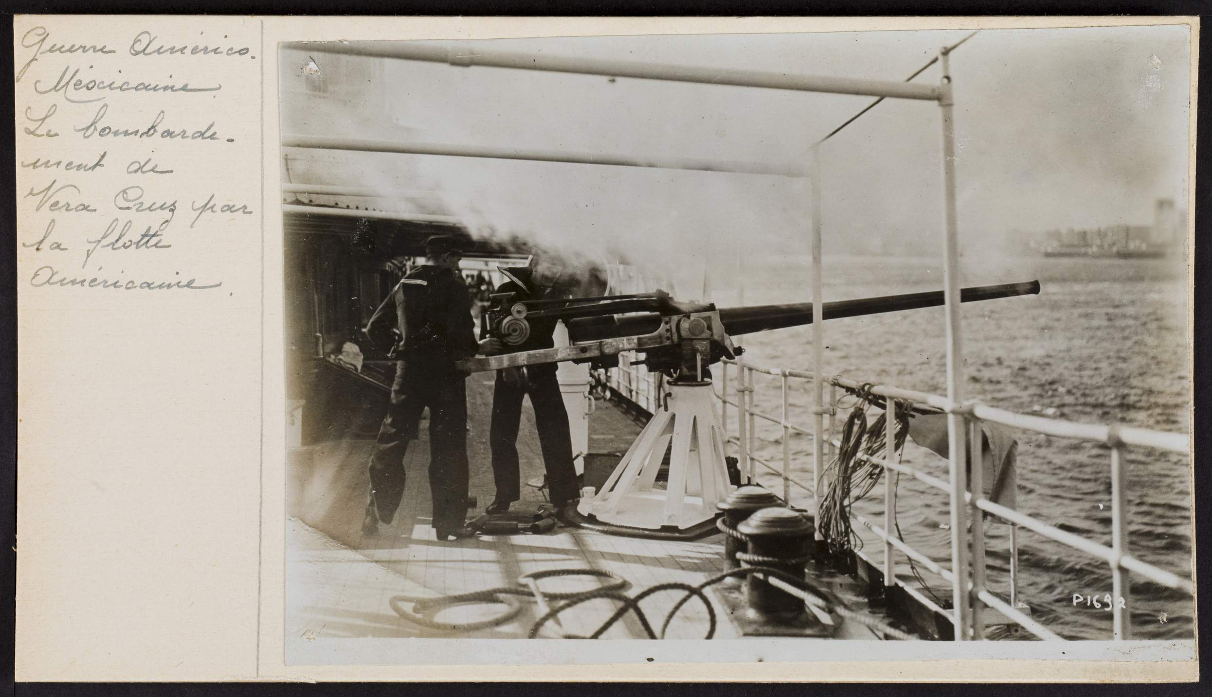 Mexican-American War. The bombardment of Veracruz by the American fleet. The weapon is possibly a 3-pounder (47 mm) Hotchkiss-type gun.